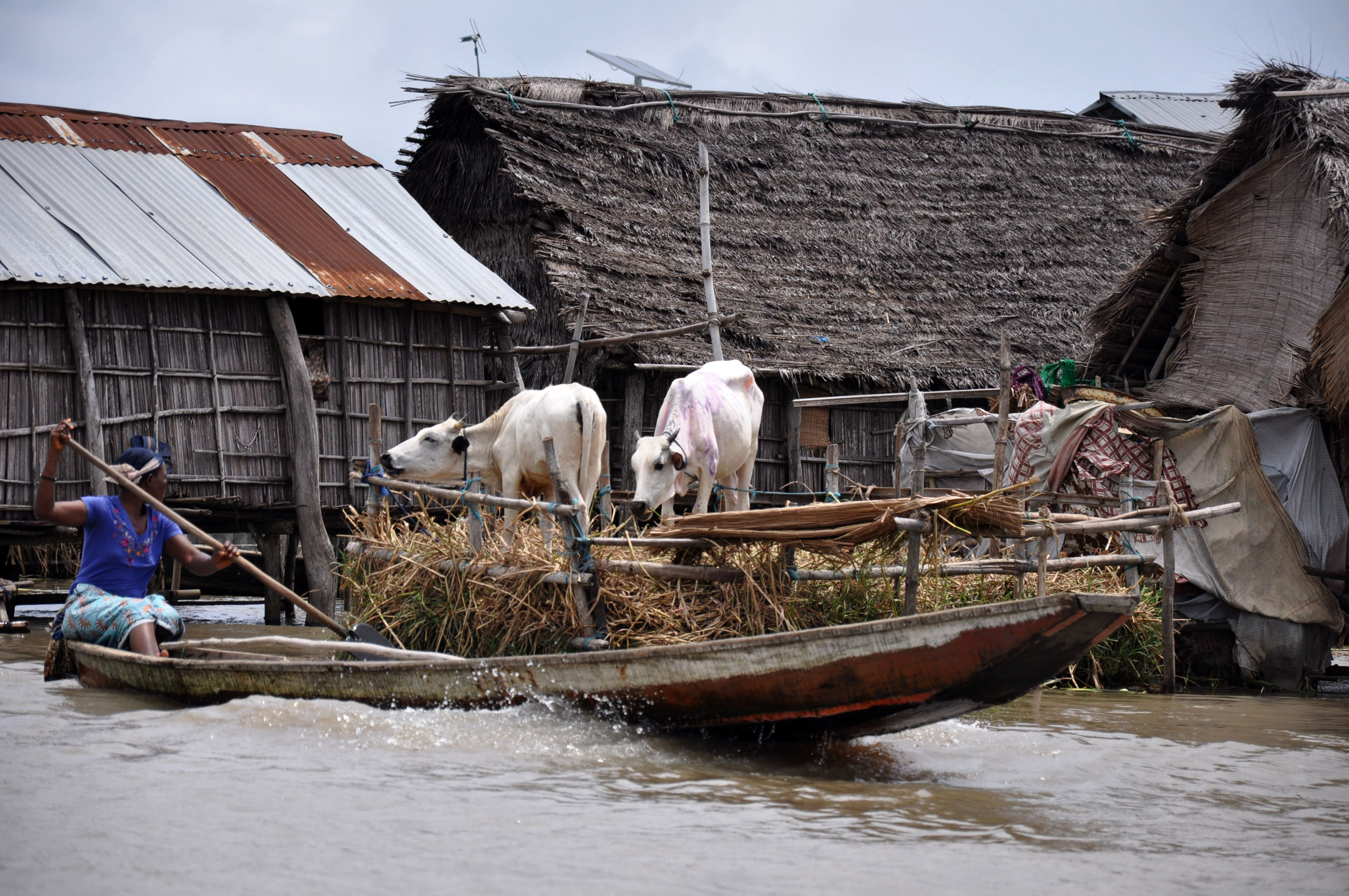 in Ganvié the breeding of oxen low its pain This is an image with the theme "Africa on the Move or Transport" from: Benin